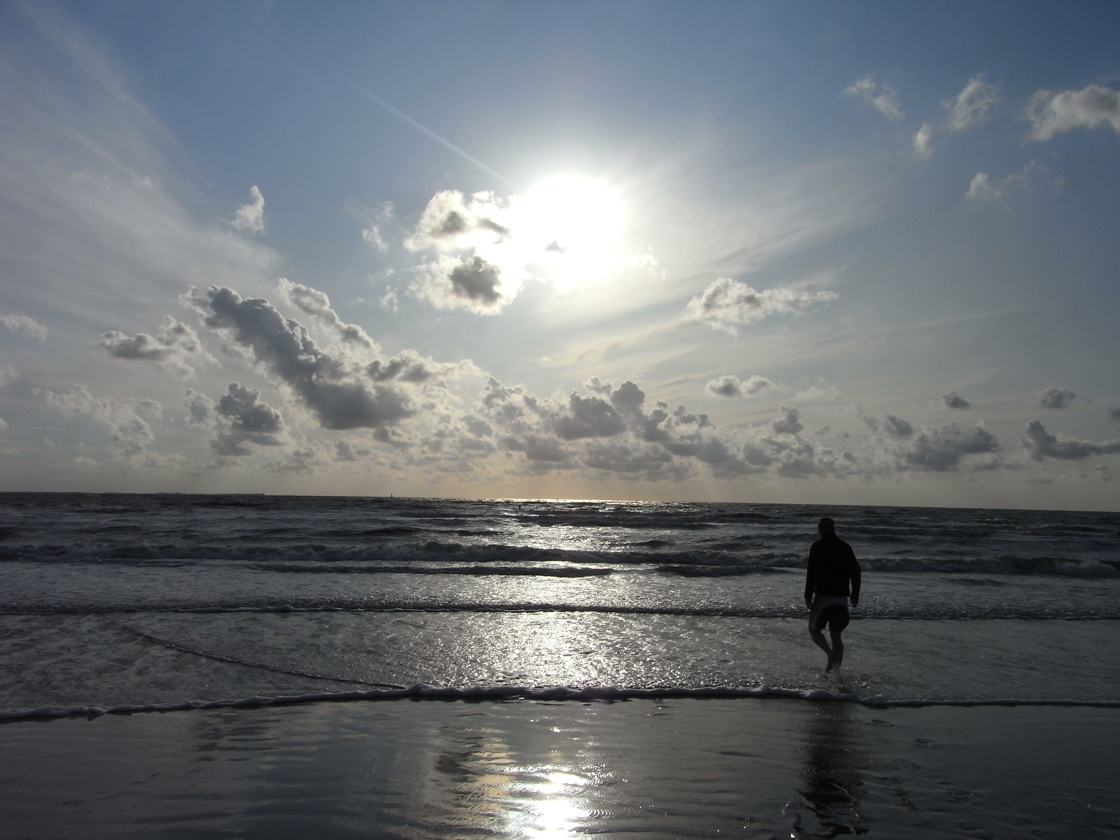 Sunset at Ameland